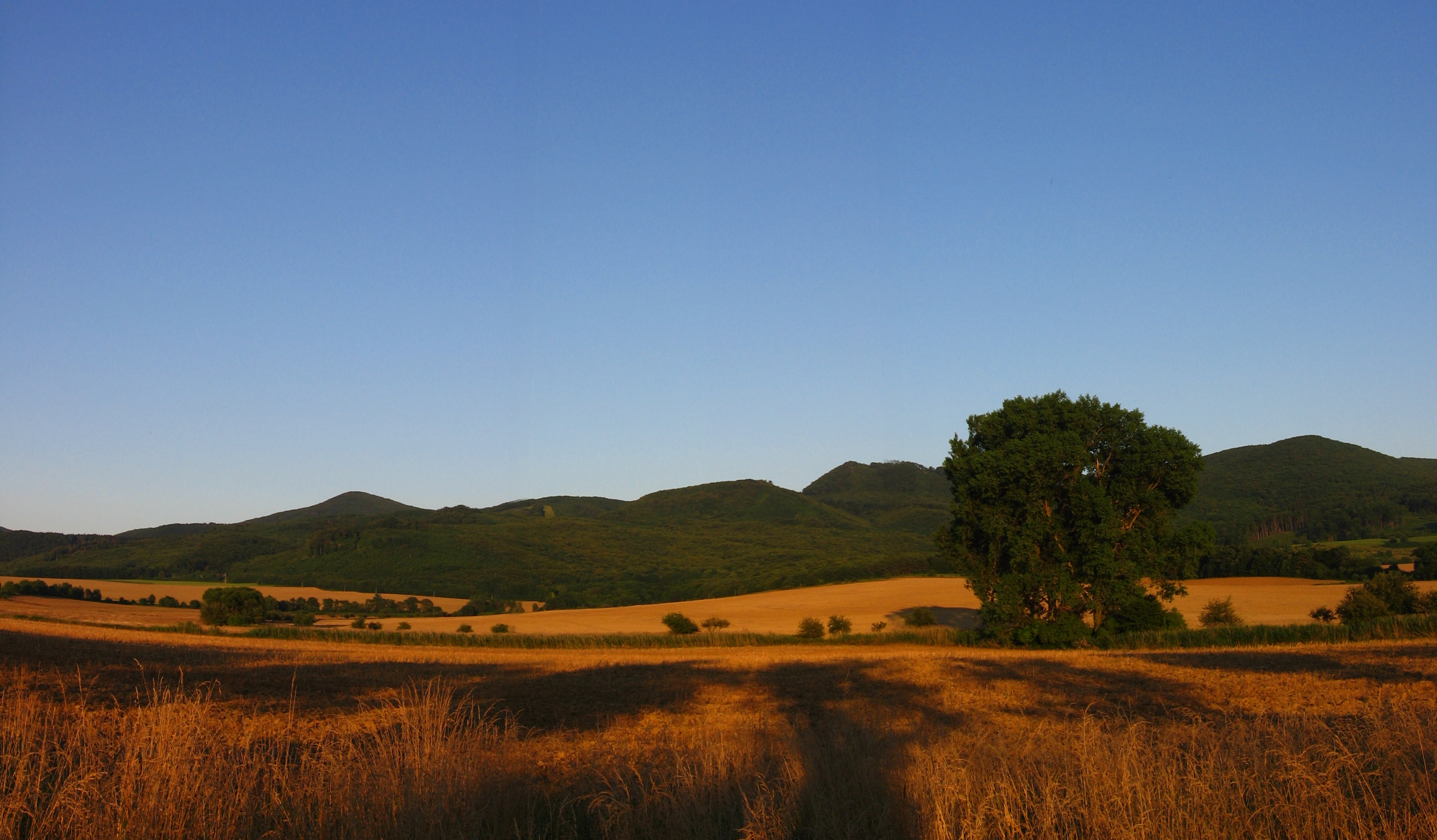 Western part of the Strážovské vrchy Mts., region of Trenčianska vrchovina. Summits on the picture: significant in the left - Ostrý vrch (765m), highest in the centre - Čiernachov (694m). Taken from road between Mníchova Lehota and Soblahov. View to the east, sunset.